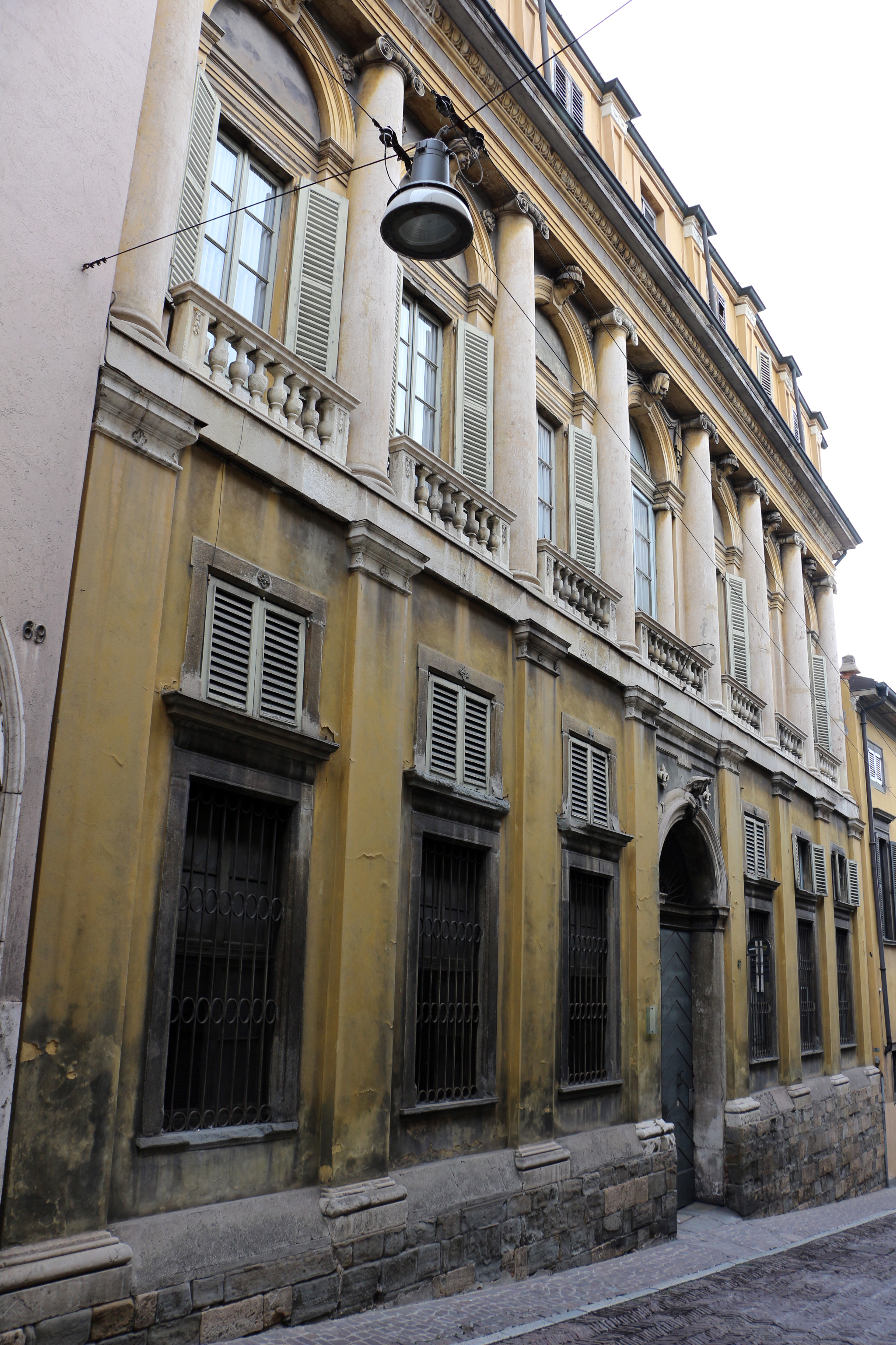 Bergamo